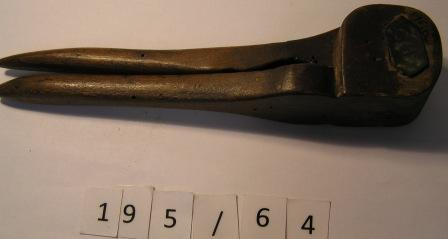 C18 Ely-made Nutcracker